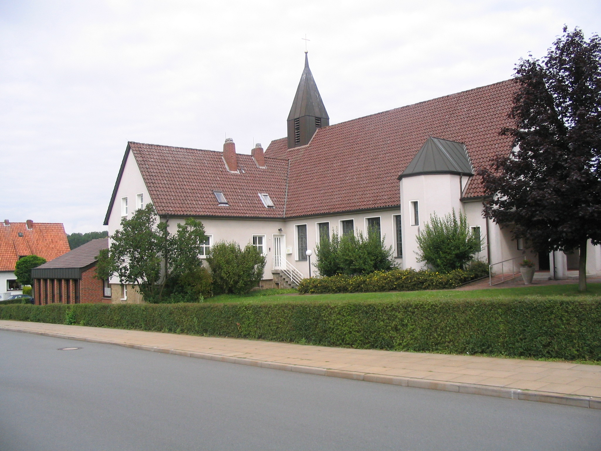 Church in town of Spenge, District of Herford, North Rhine-Westphalia, Germany.